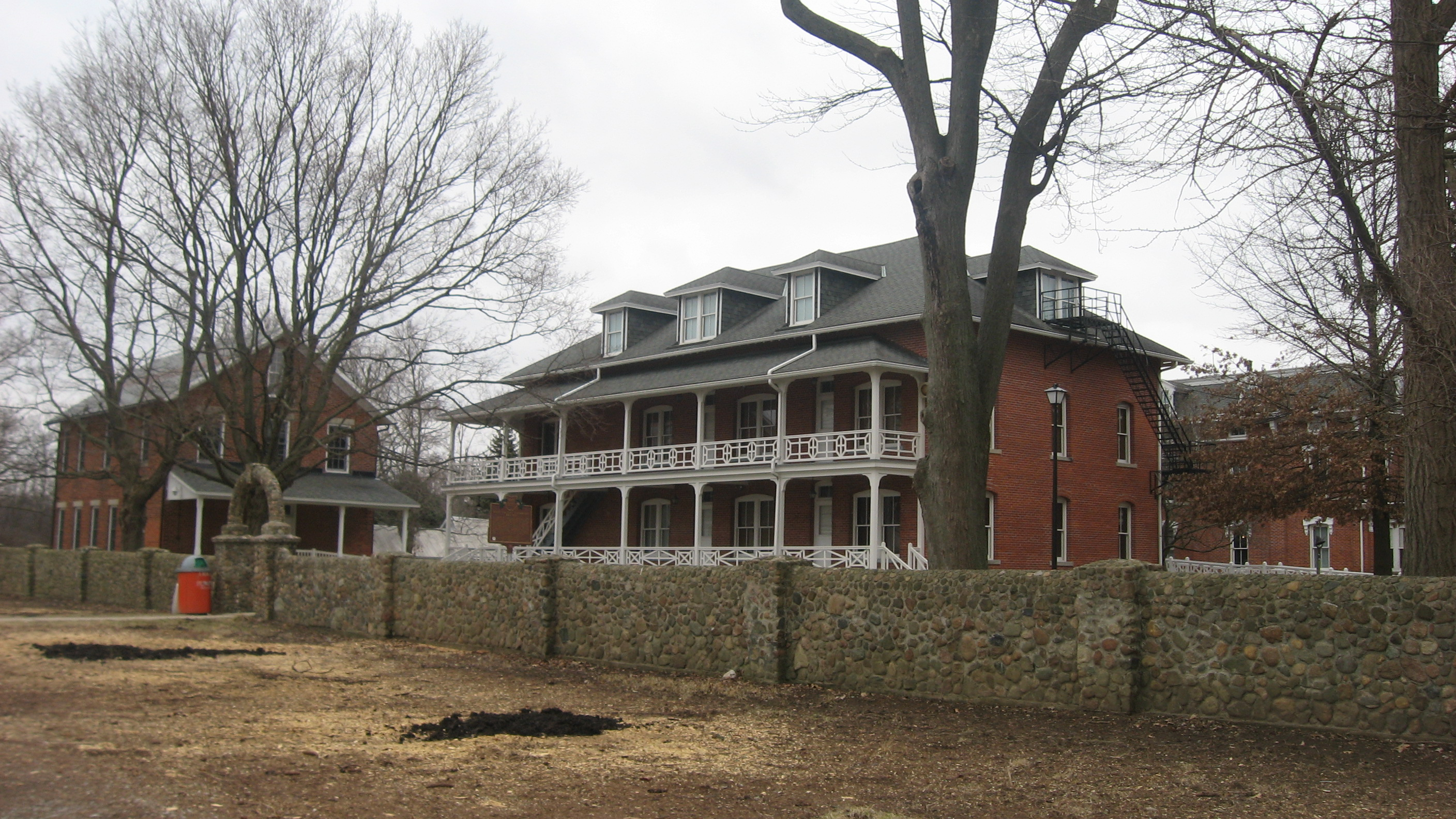 Overview of the former Wood County Home and Infirmary, located at 13660 County Home Road southeast of Bowling Green in Portage Township, Wood County, Ohio, United States. Built in 1868 and since turned into the Wood County Historical Museum, the complex is listed on the National Register of Historic Places.